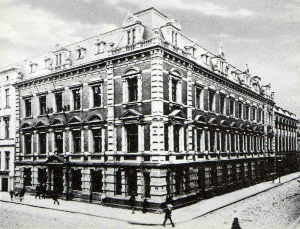 building